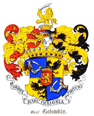 Coat of Arms of Golowkin family